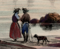 "Vue de Honolulu. lles Sandwich". This scene depicts Honolulu at the time of the visit of French seafarer Auguste Nicholas Vaillant in 1836 with the artist Barthelemy Lauvergne aboard. This engraving shows their moored ship, La Bonite, along with a small launch and a traditional canoe. In the foreground, some Hawaiians appear in traditional dress; others wear missionary-influenced European clothing. A dog follows a Hawaiian couple. The dog has been hypothesized by anthropologist Katharine Luomala as a possible depiction of a Hawaiian poi dog.